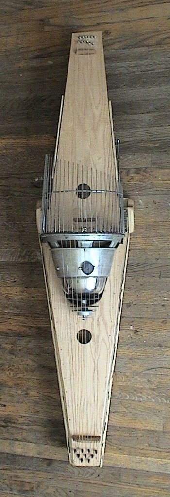 this is my instrument Bowafridgeaphone made by Iner Souster (FemBots)